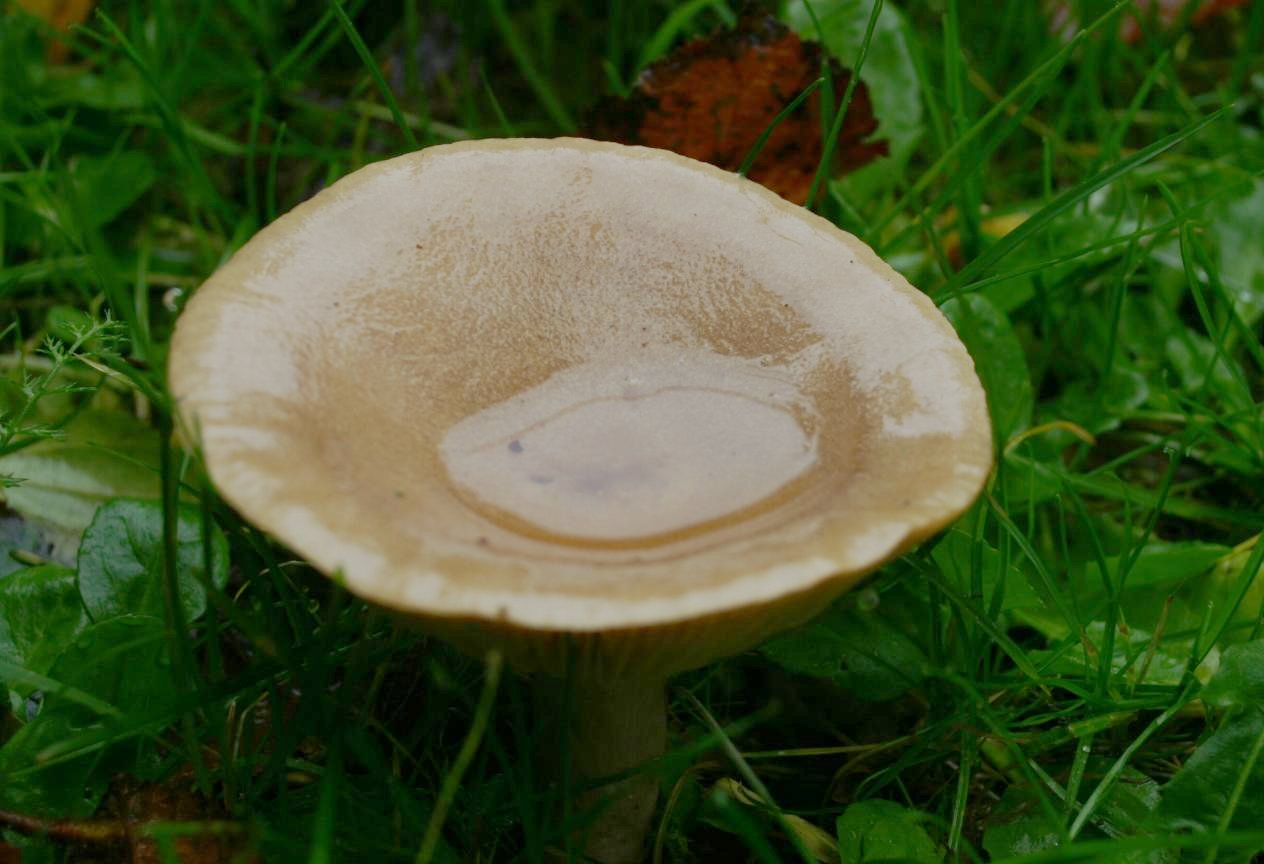 Water: Fungus gathering water. Photo: Sten Porse